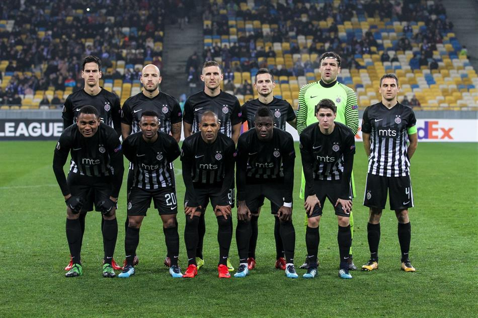 Dynamo Kyiv vs Partizan Belgrade in December 2017.